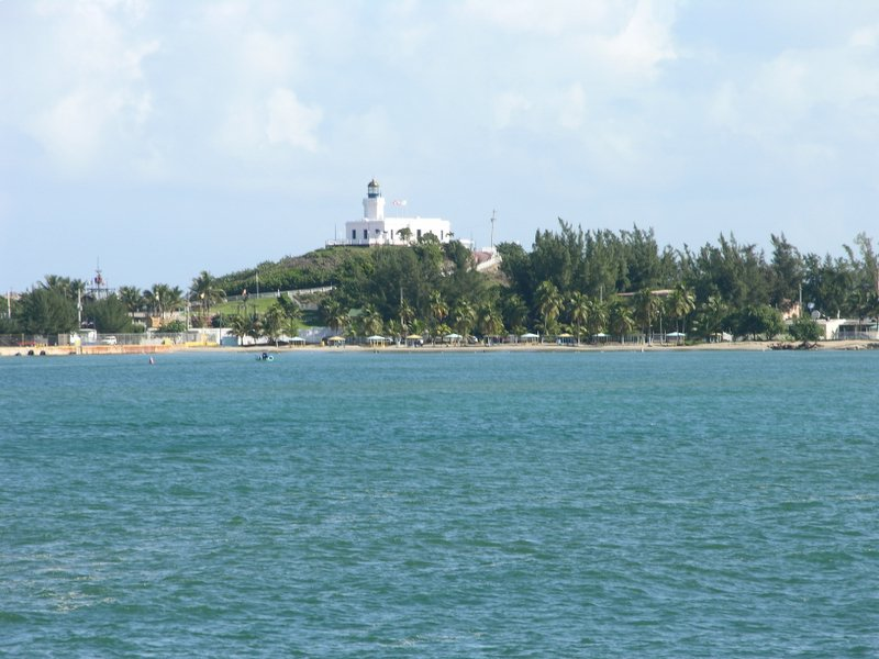 Manuel Santiago